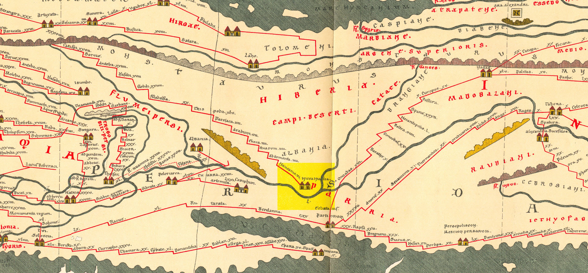 Part of the Tabula Peutingeriana with Nicea Nialia noted, at part 12.1